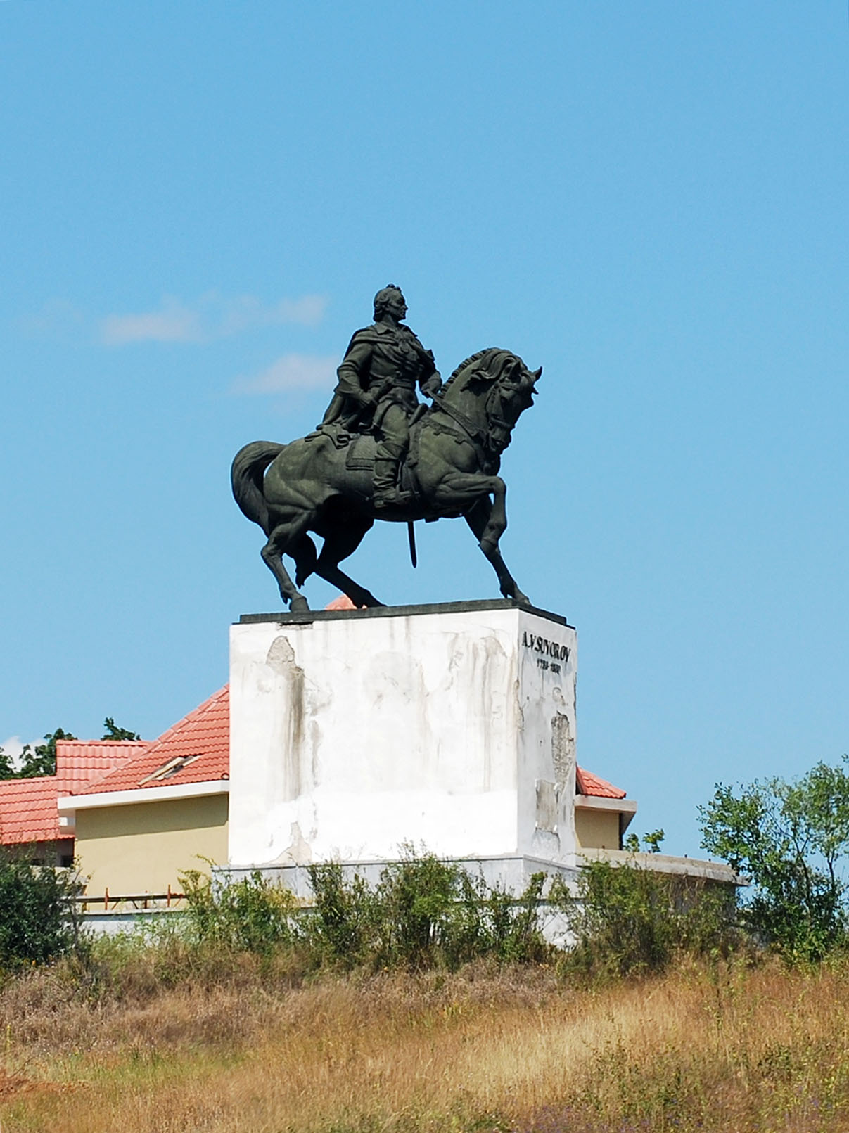 The Suvorov monument near Focşani, Romania